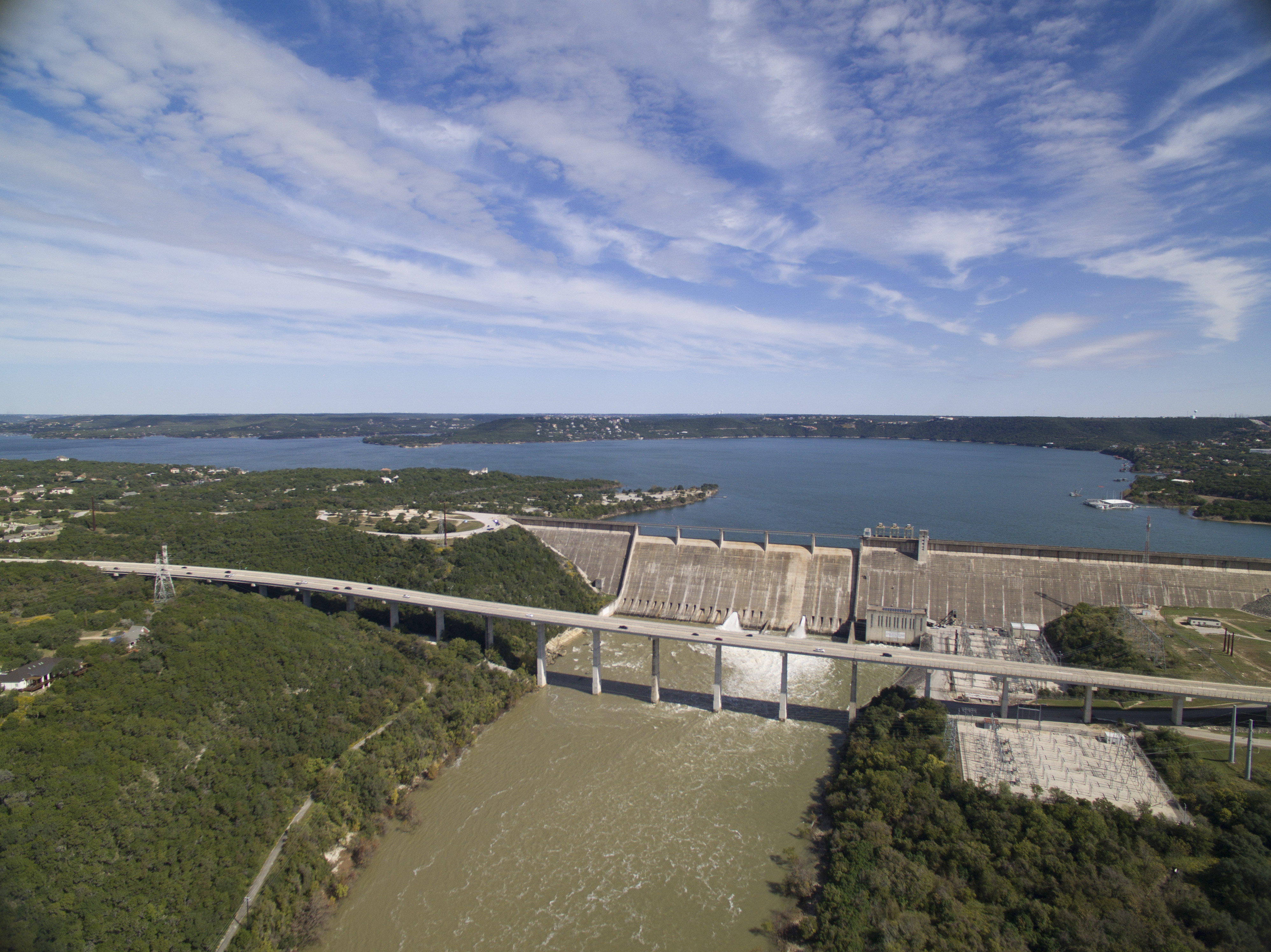 Mansfield Dam with open floodgates after the 2018 Central Texas floods